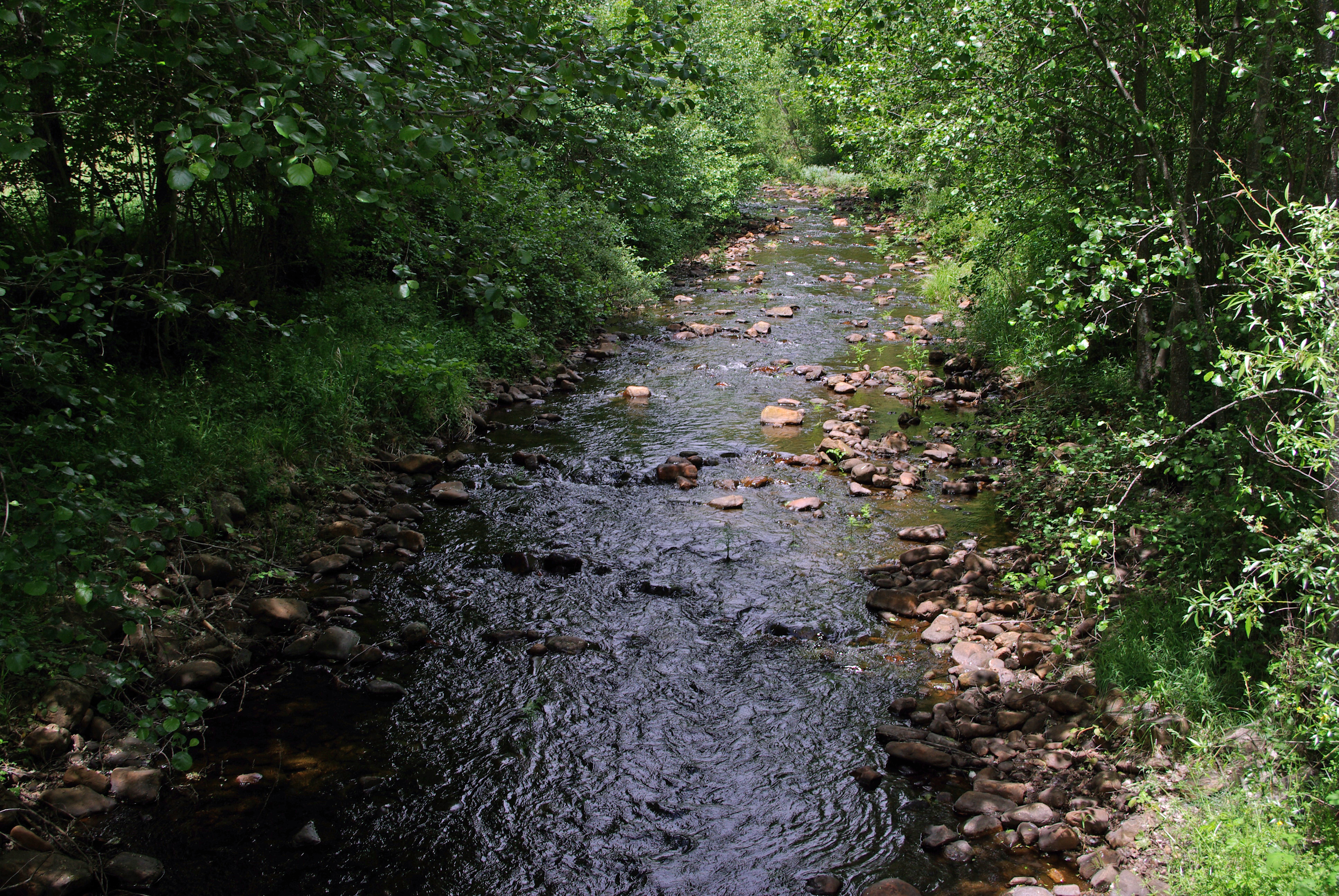 River Valdesamario, Órbigo basin, near Valdesamario (León, Spain).